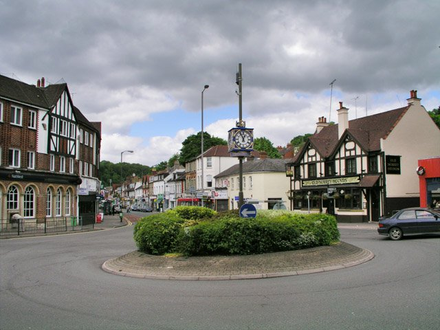 The roundabout in the center of Caterham valley